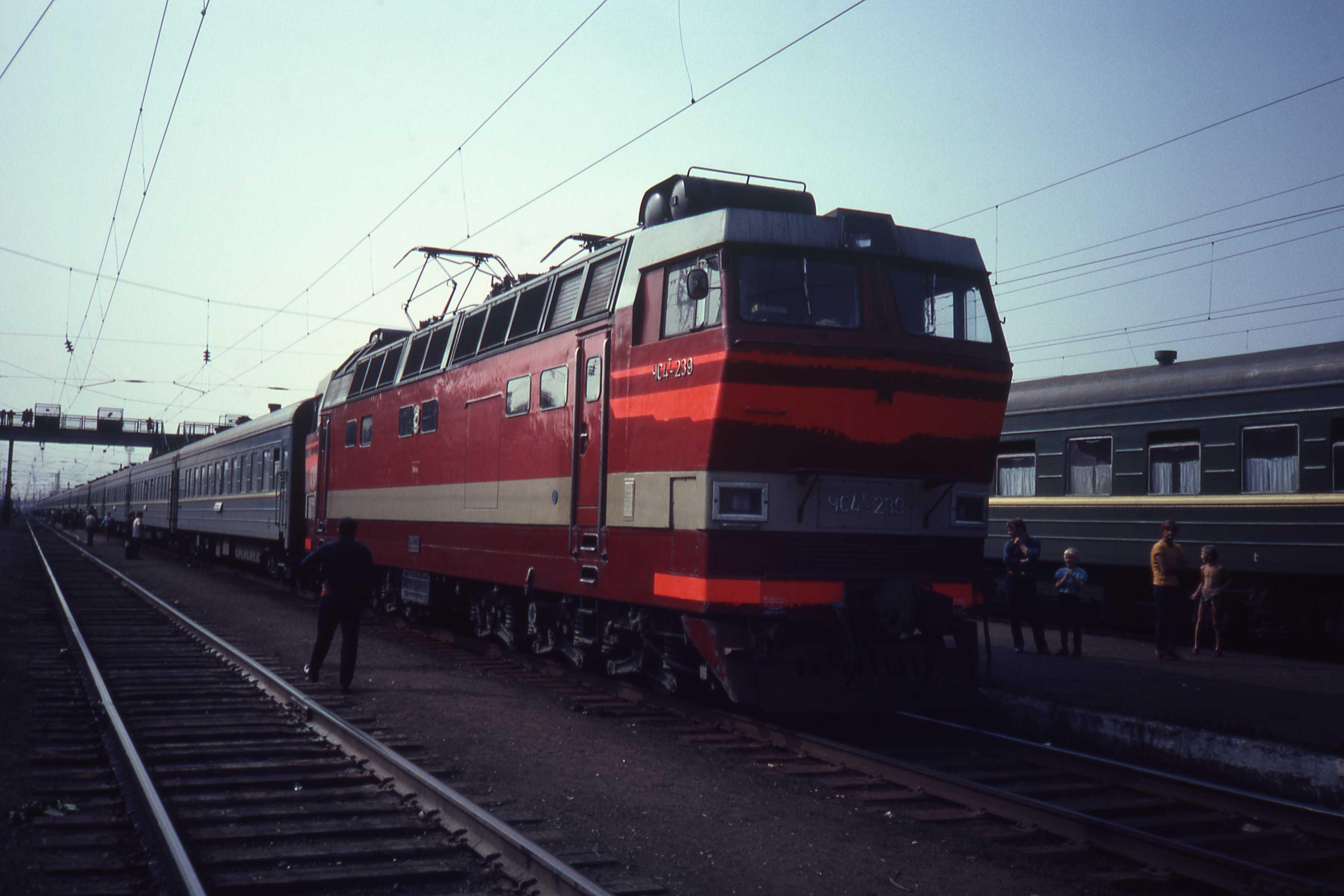 Stops with the BAIKAL, Irkutsk - Moscow train in 1982. Big electric locomotives